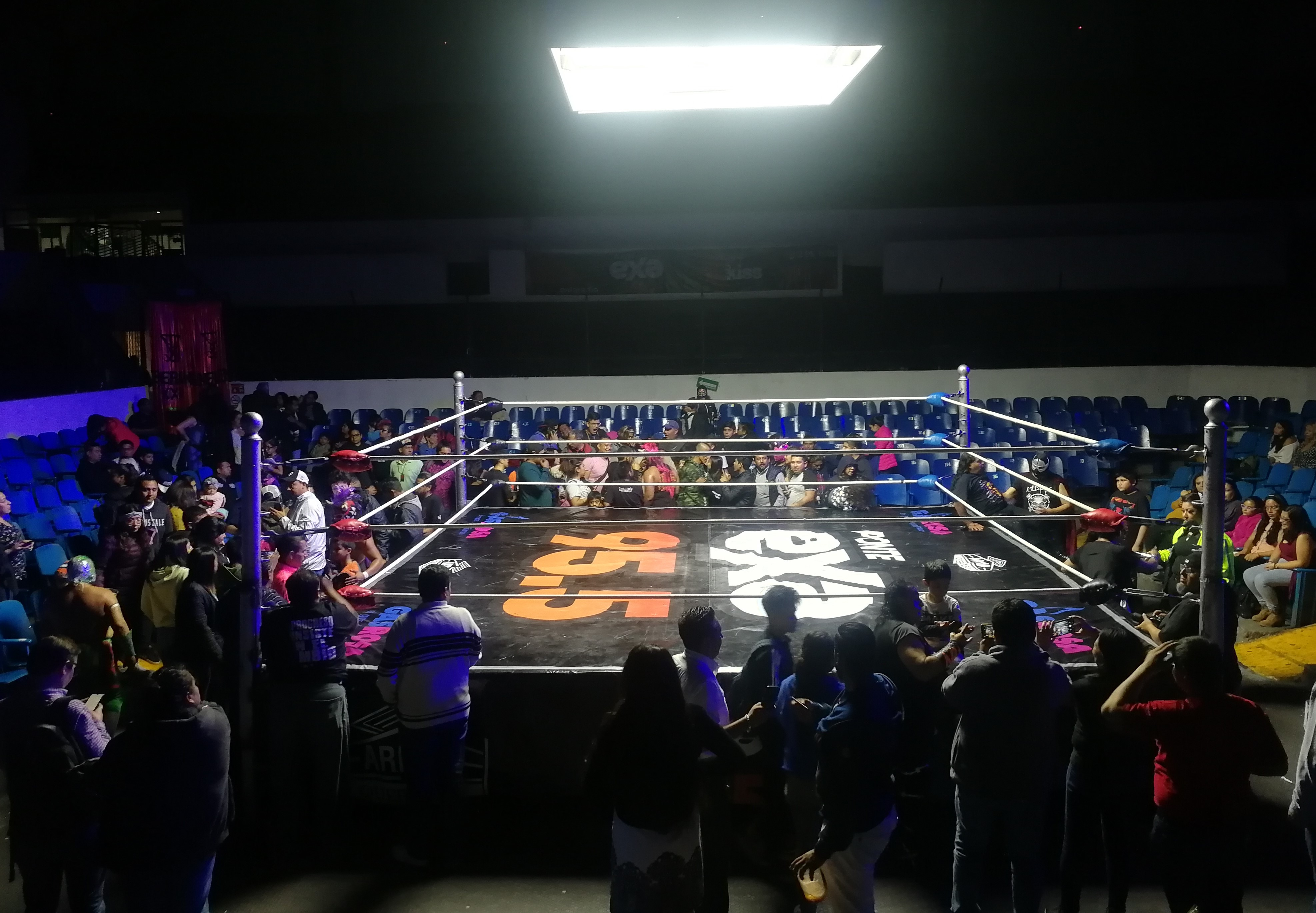 Arena Querétaro after a wrestling show.